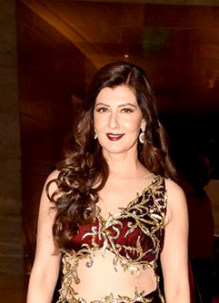 at Archana Kochhar’s fashion showcase